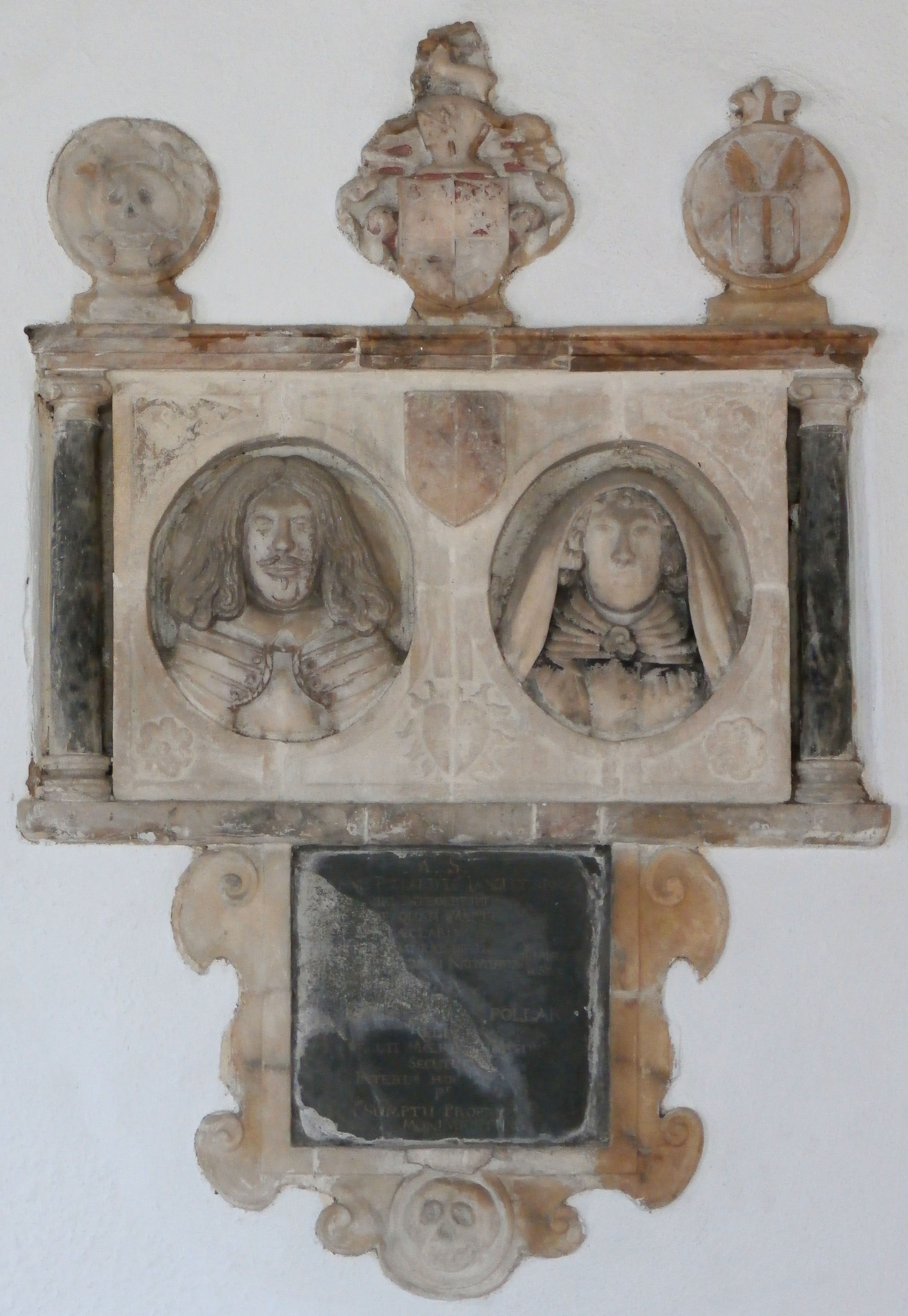 Mural monument to John Pollard (d.1667) of Langley, Yarnscombe, Devon, and his wife, name uncertain, possibly Sarah Addington. Yarnscombe Church, Devon. The Latin inscription, partly illegible due to damage reads: M(emoriae) S(acrum) Johannis Pollard de Langley, Armigeri, viri integerrimi (virtut)e quam Marte praeclari (qui obiit) Novemb(rensis) die 12, sua aetatis ...., Domini Nostri nativitatis Christi .... Et conjux ..... Pollard relicta [veluti maerens turtur] secutura interim hoc p(osui)t [sumptu proprio] monumentum ("sacred to the memory of John Pollard of Langley, Esquire, a man as much undiminished in virtue as famous for martial prowess (who died) on the 12th day of November in the year of his age ... in the year of the birth of our Lord Christ .... His wife .... Pollard [just like a mournful turtle-dove] about to follow him, meanwhile placed [at her own expense] this monument".) Above at the top of the monument are shown the arms of Pollard: Argent, a chevron sable between three escallops gules, quartering de Via (alias de Way of Way in the parish of St Giles in the Wood): Argent, a chevron sable between three mullets pierced gules. Above atop a helm is the crest of Pollard, a stag passant (?). Between the two portrait busts is an escutcheon of Pollard impaling two bars in chief three roundels (?), which should be the arms of his wife, whose family is not known. These are not the arms of Addington, which family she is stated in certain sources to be from.